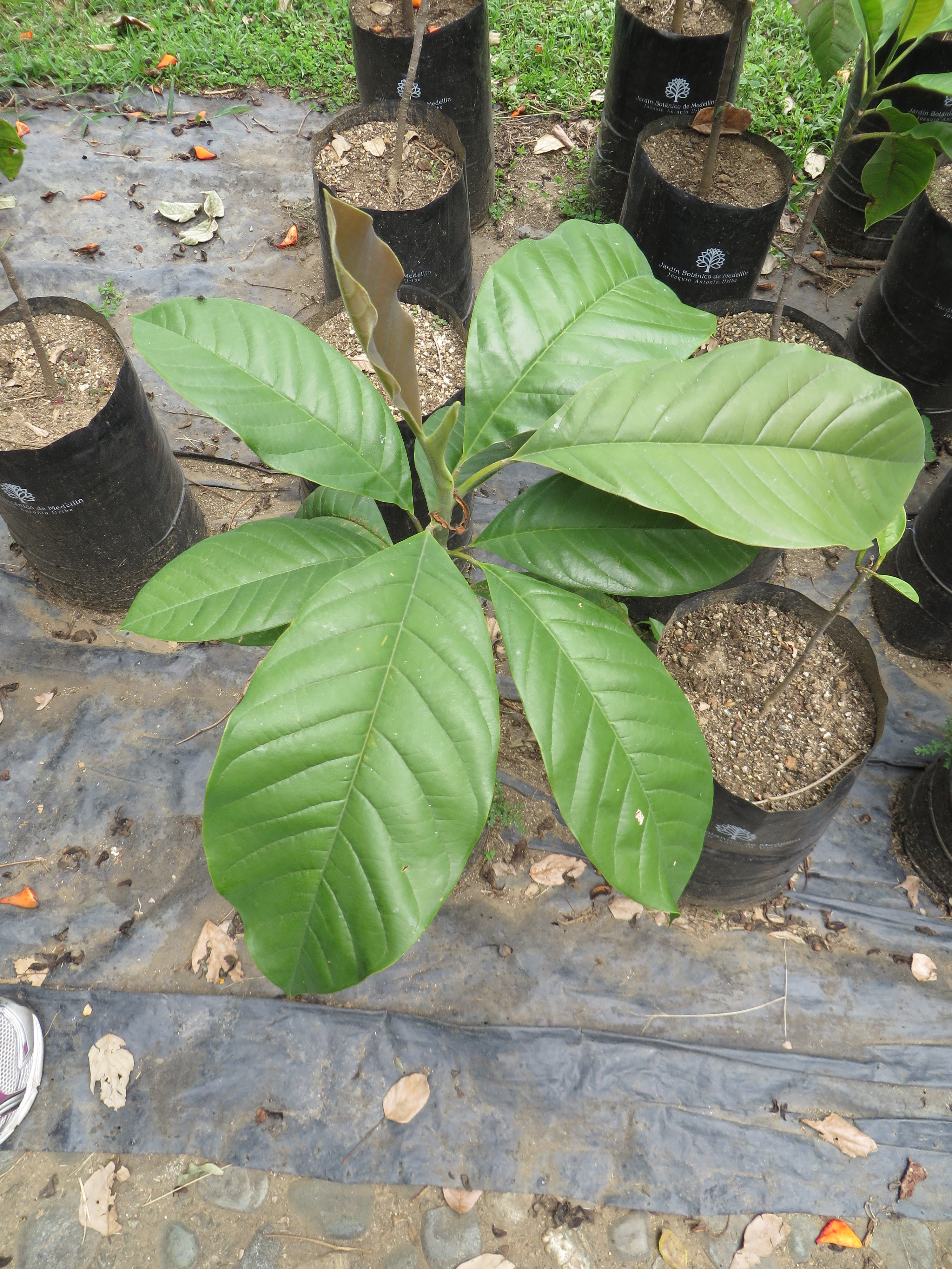 Seedlings of Magnolia jardinensis